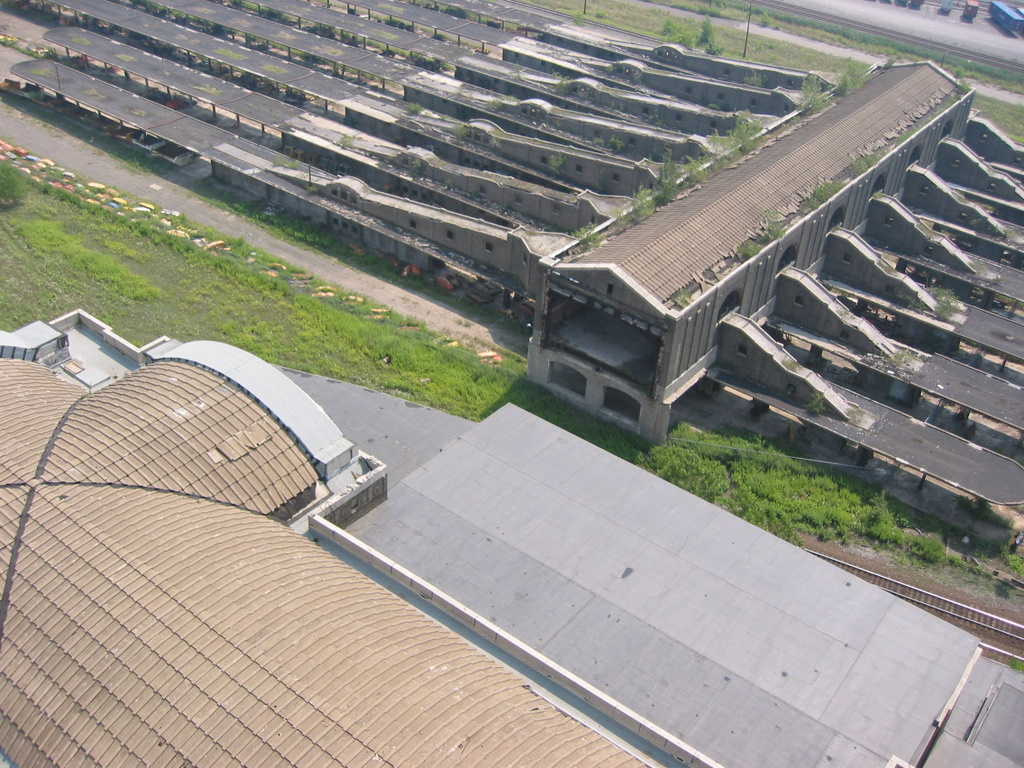 Now detached passenger concourse of Buffalo Central Terminal